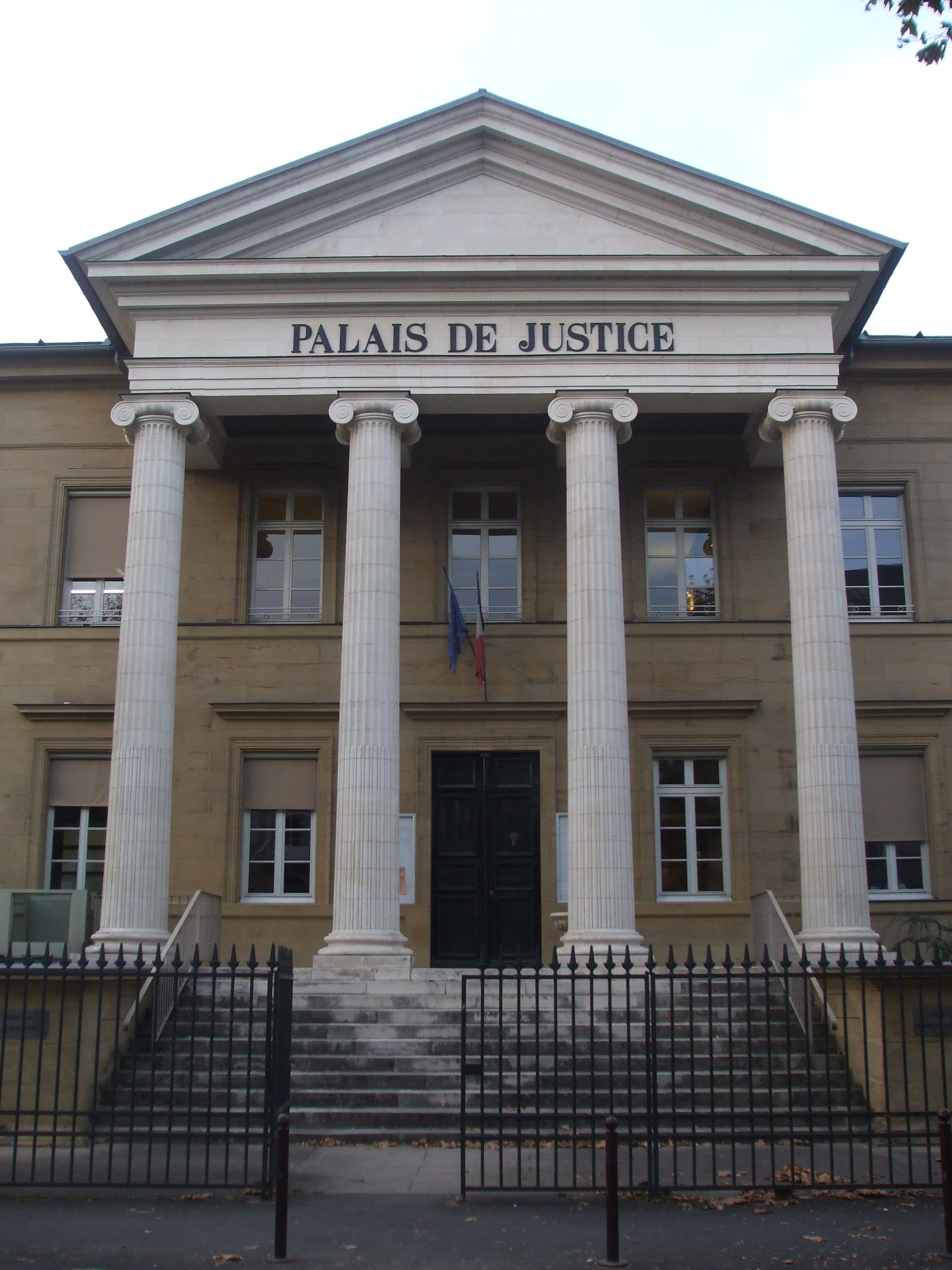 Brive-la-Gaillarde Courthouse, France